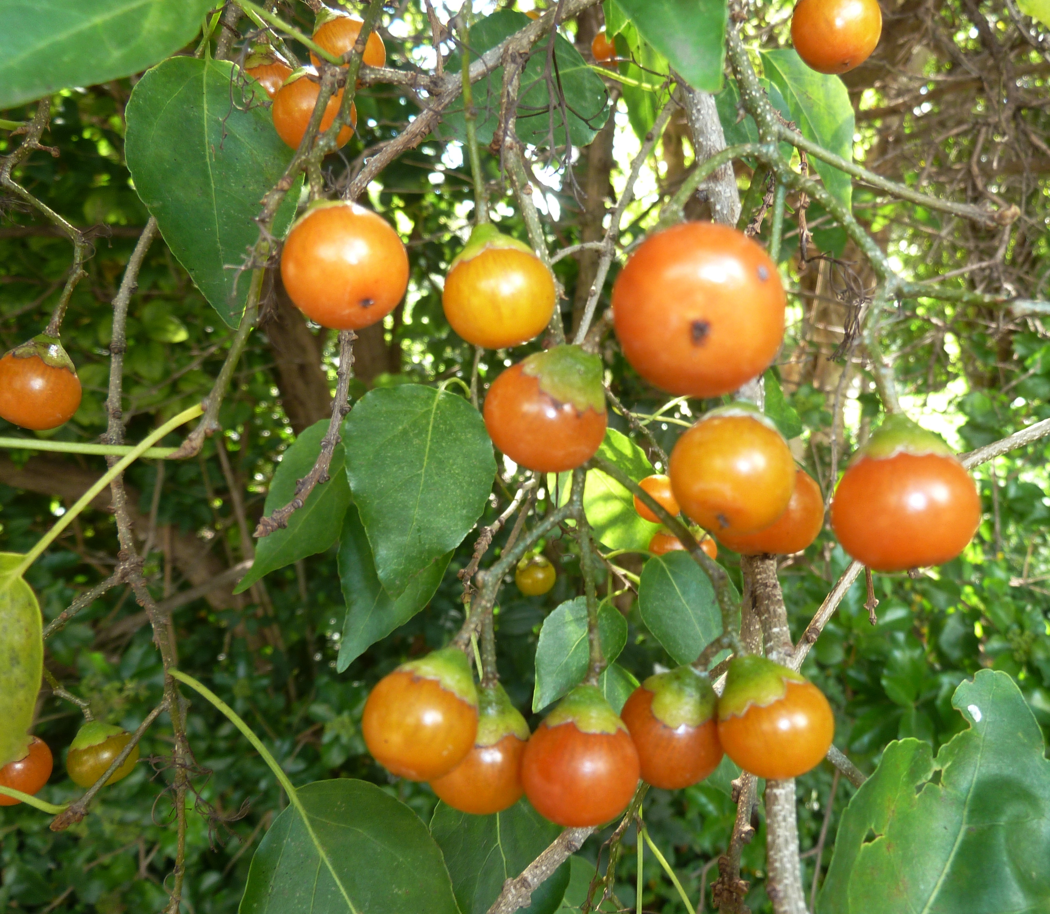 Septee saucer-berry in the Manie van der Schijff Botanical Garden, University of Pretoria